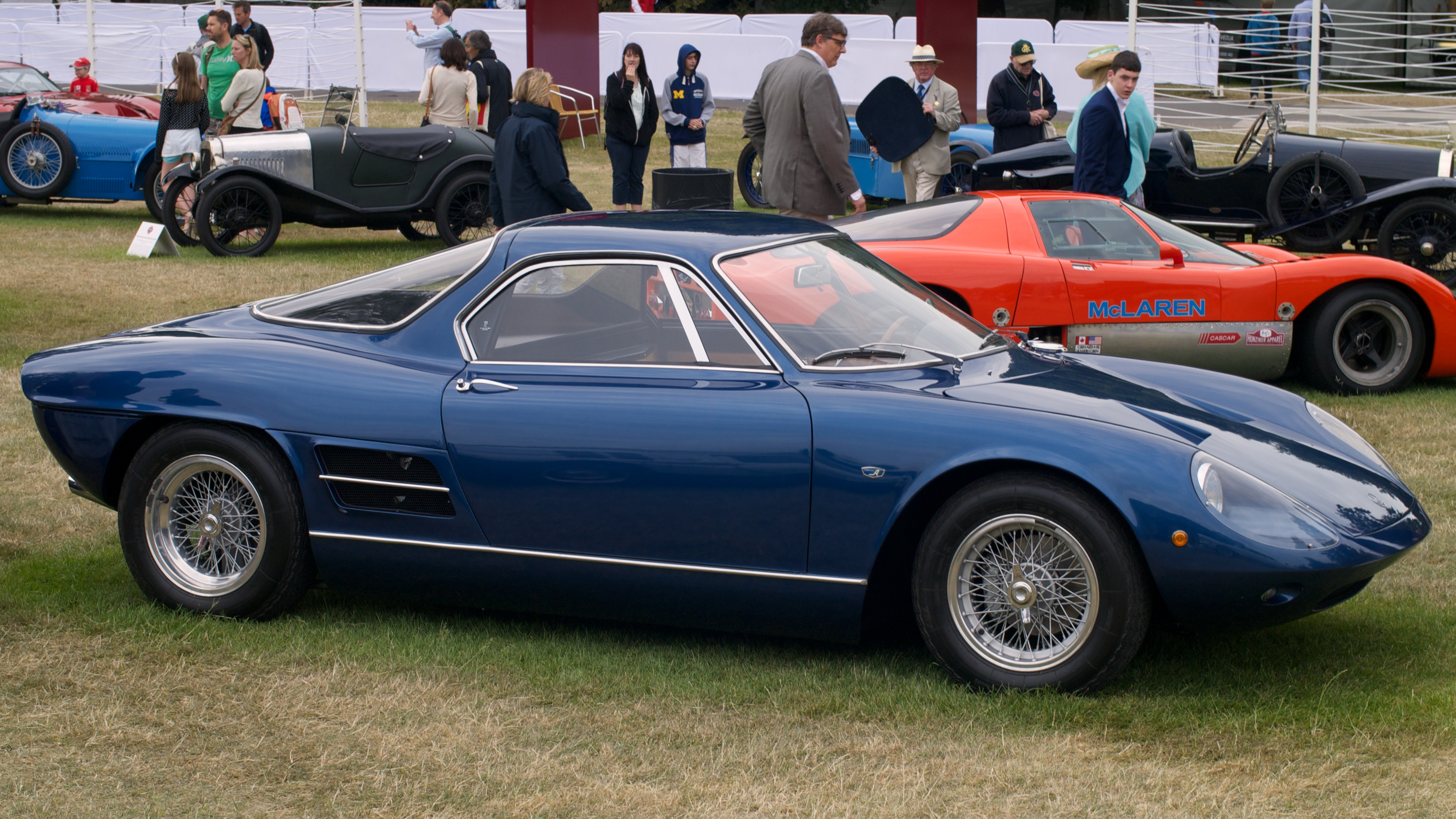 1964 ATS 3000 GTS. Goodwood Festival of Speed 2014.